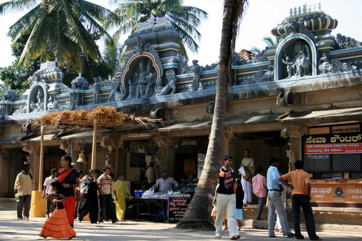 Kalaseswara Main Temple Entrance.